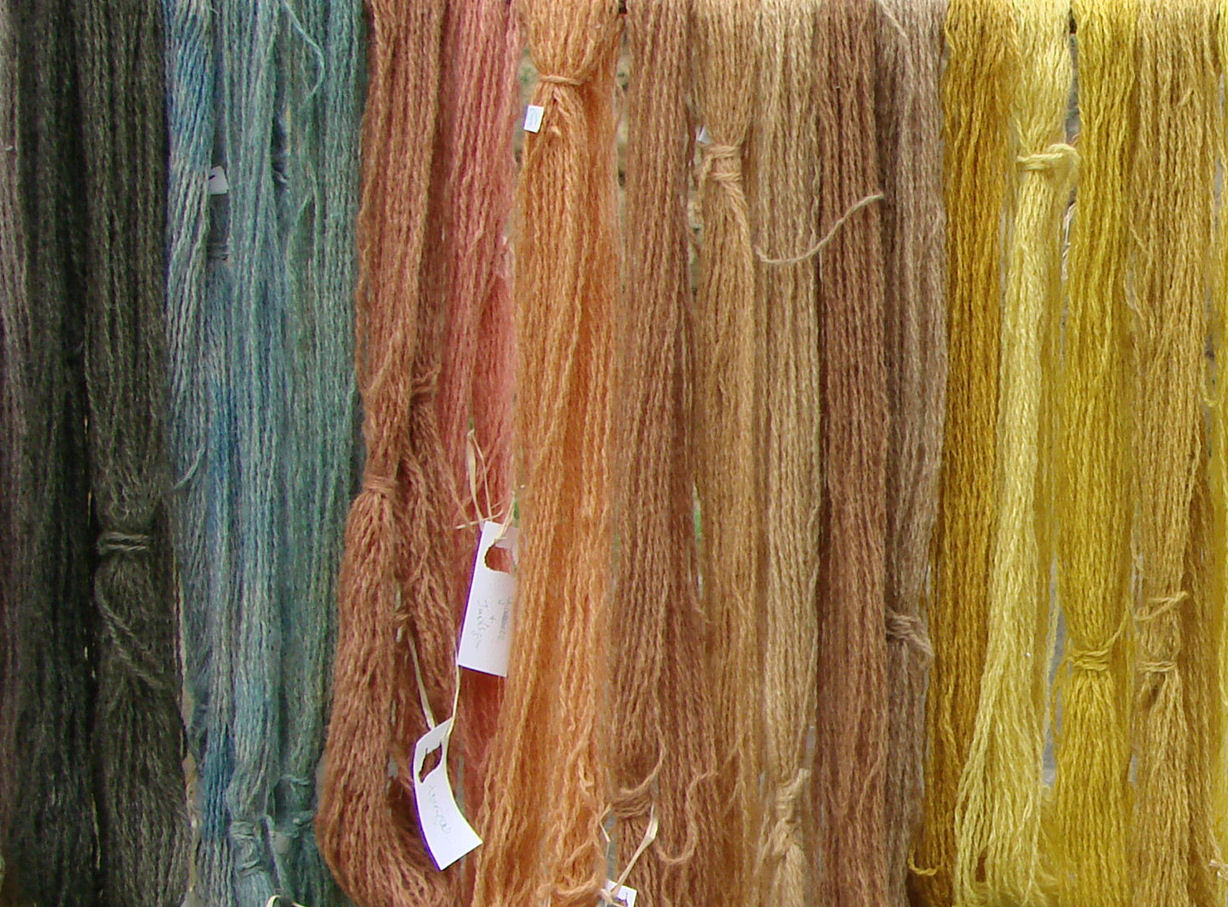 Skeins of wool dyed with natural plant dyes. Medieval Festival of Sedan, May 20, 2007, detail